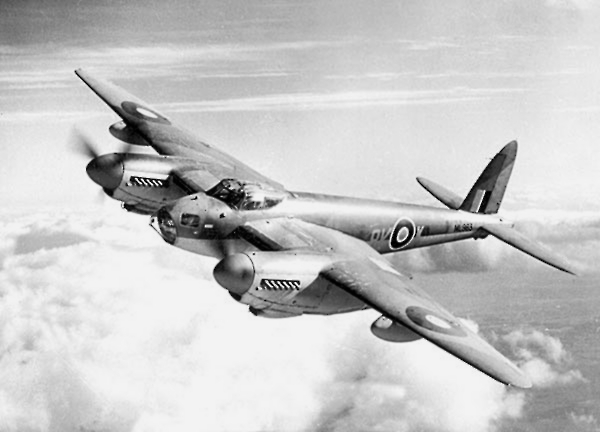 A Royal Air Force de Havilland Mosquito B.XVI (serial ML963) in flight. ML963, 8K-K "King" of No. 571 Squadron, the picture having been taken on 30 September 1944, after the aircraft had completed repairs at Hatfield. ML963 was first issued to 109 Squadron on 9 March 1944, going on to 692 Squadron on the 24th of the same month , and then on to 571 on 19 April 1944. It was damaged in action on 12 May 1944 but returned to the Squadron on 23 October of that year. ML963 completed 84 operations with the Squadron, 31 of them to Berlin (one of the others was a low-level sortie to skip-bomb a 4,000 lb bomb into the Bitburg Tunnel, undertaken on New Year's Day, 1945. The crew were Flt Lt Norman J Griffiths & Flg Off WR Ball). Its final sortie came on 10/11 April 1945, when it was abandoned following an engine fire. The crew, F/O R.D. Oliver and F/S L.M. Young RAAF, rejoined their Squadron before the end of the month, F/O Oliver reporting as early as 22 April 1945.